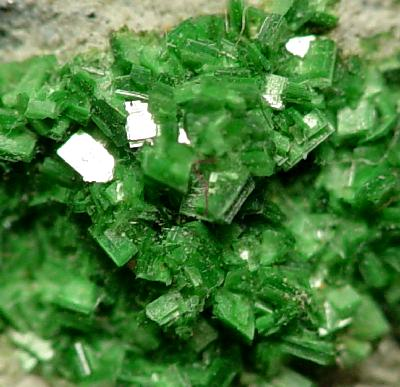 Sincosite, Minyulite Locality: Ross Hannibal Mine (North Star Mine; Hannibal Mine; and Mikado Mine), Lead District, Lawrence County, South Dakota, USA (Locality at ) A specimen with unusally deep green crystals, scattered about on matrix and with an associated spray of white, acicular minyulite. Exceptional quality and richness for this find (early 1990s by Tom Loomis), and such are scarce on the market today. 5.5 x 5 x 4 cm